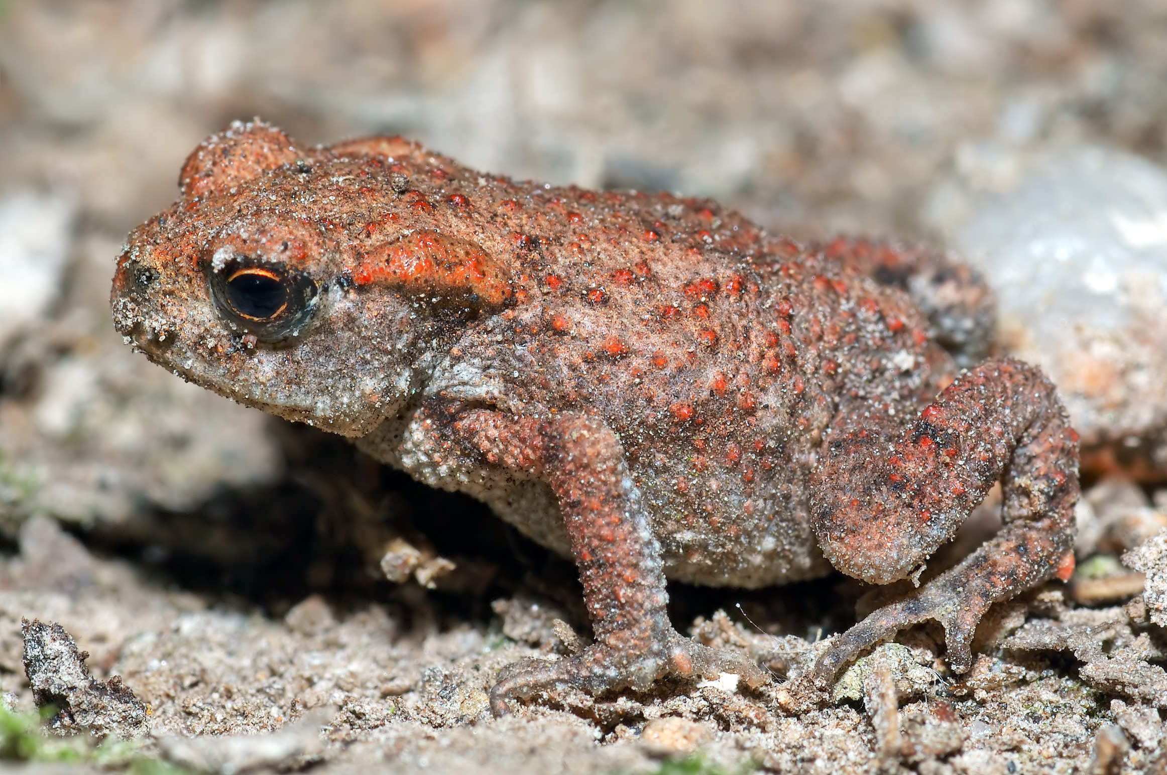 This image shows an about two month old and 0.75 inch (1.9 cm) small Common Toad (Bufo bufo).